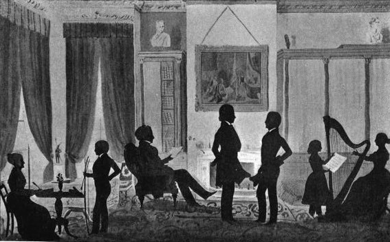 Portrait of Abbott Lawrence family "in their library," no.5 Park Street, Boston